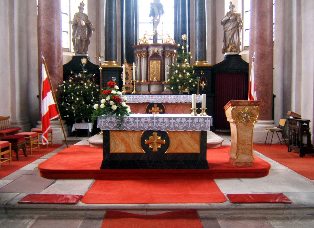 The altar in the church of Zella (Rhön).